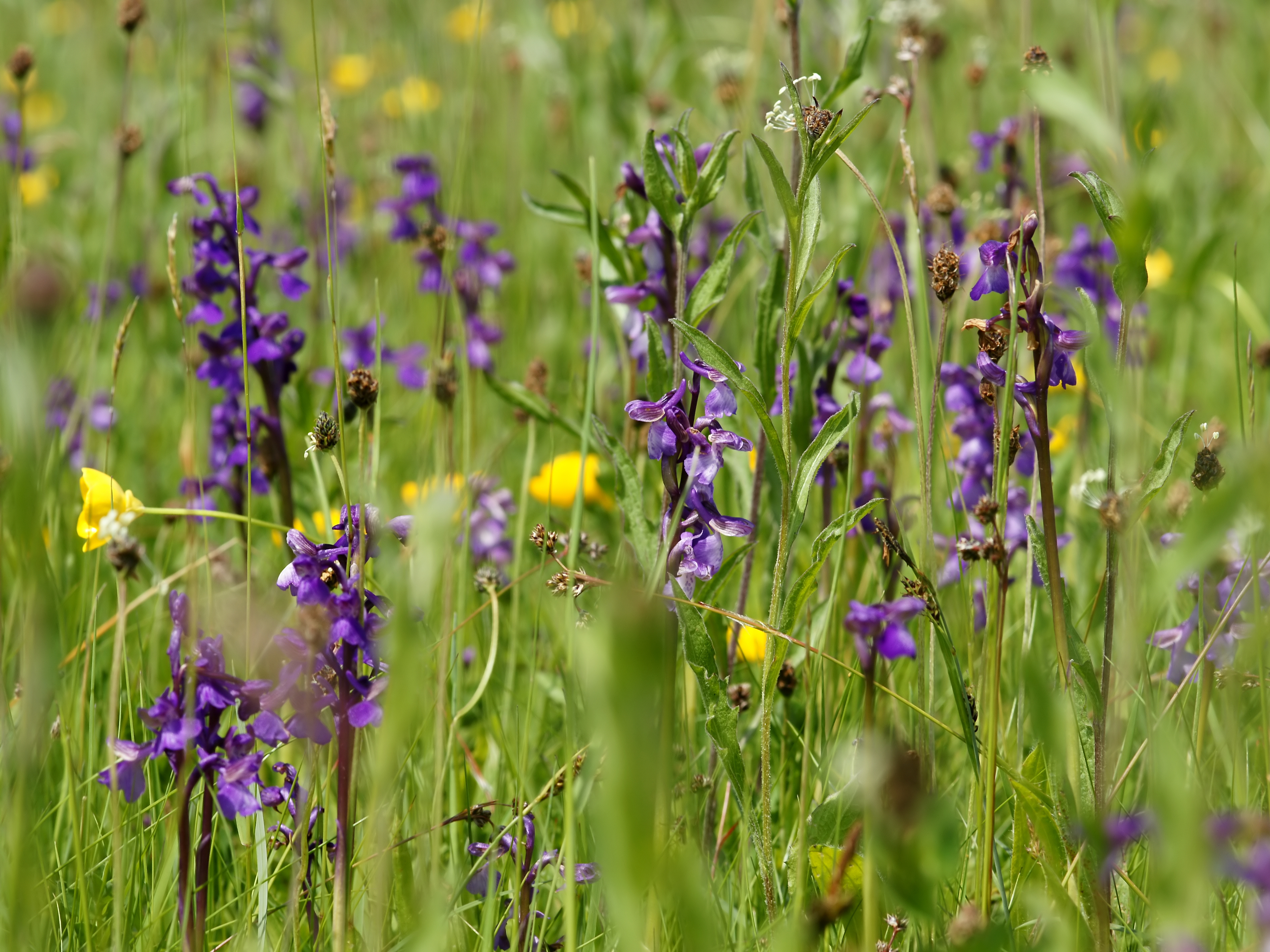 Green-winged orchid near Hour, Belgium. Approximate coordinates within a 3 km radius.